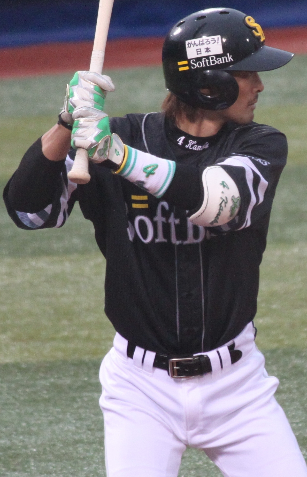 Keisuke Kaneko, infielder of the Fukuoka SoftBank Hawks, at Yokohama Stadium.